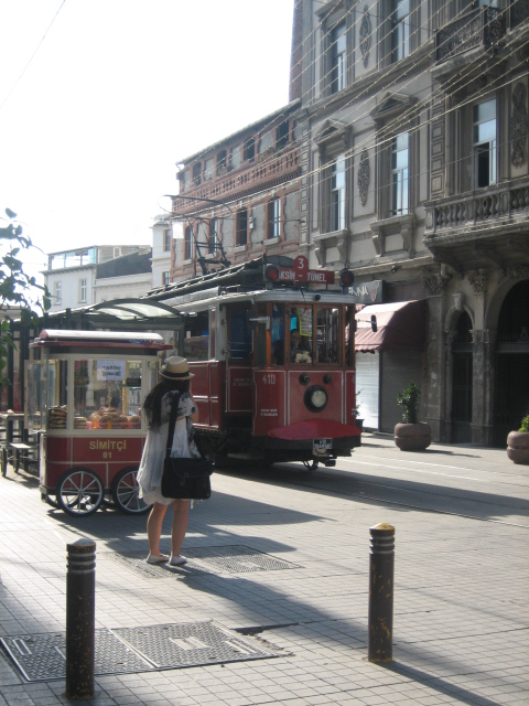 End of Istiklal Avenue: TunnelTürkçe: İstiklal Caddesi'nin sonu: Tünel